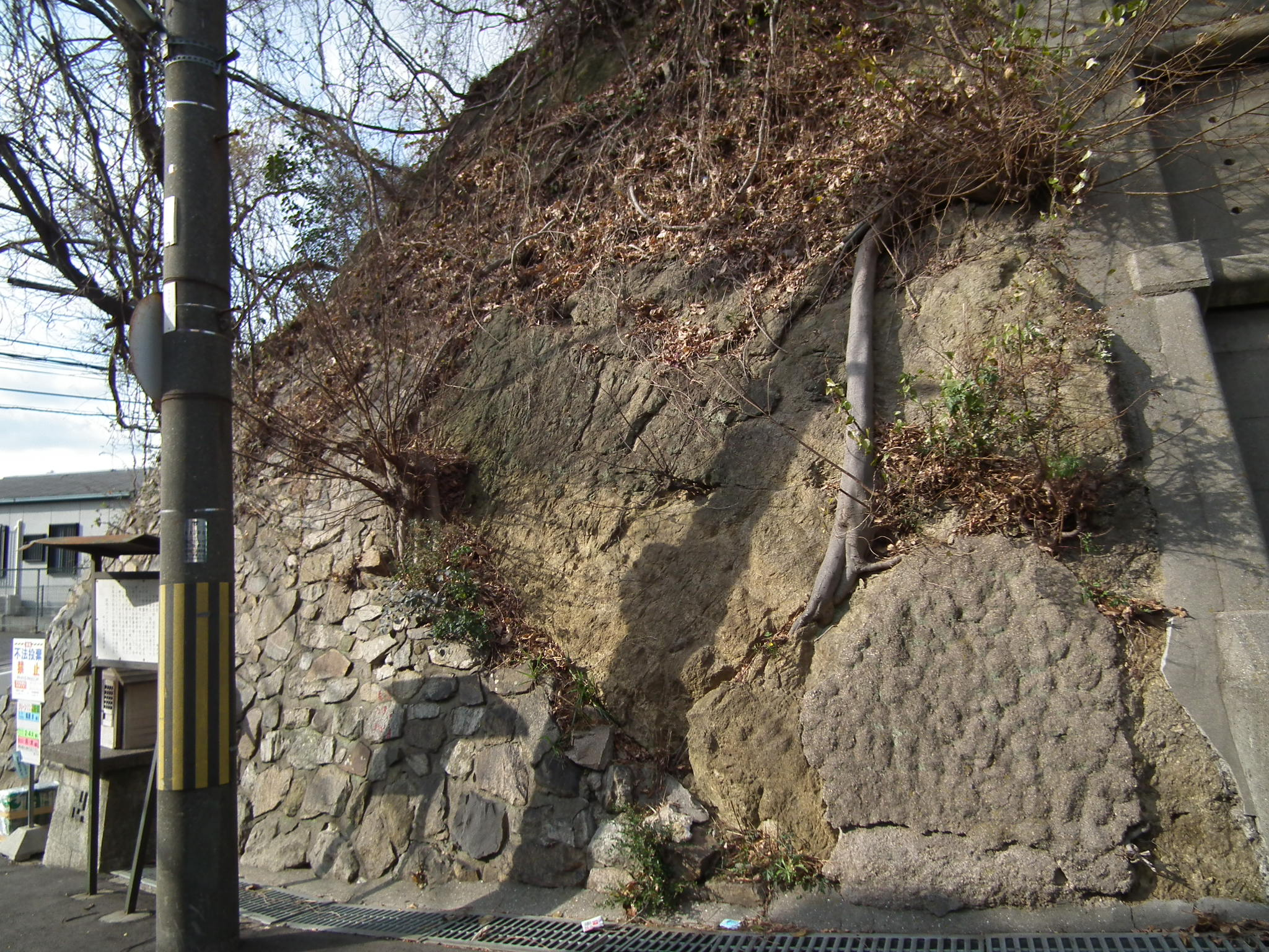 Maruyama thrust fault